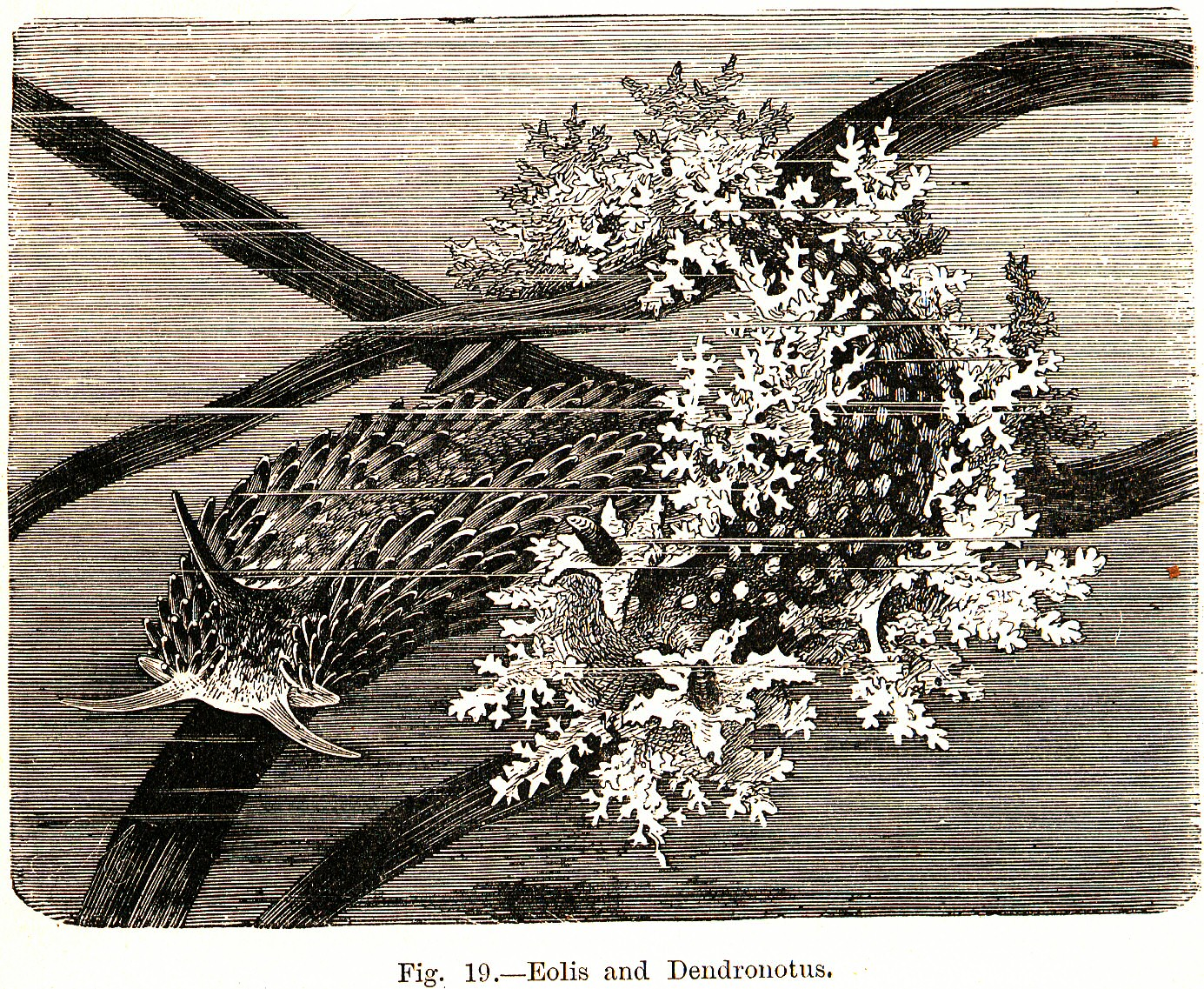 Woodcut of marine nudibranchs Eolis (now Aeolidia) and Dendronotus in Frank Evers Beddard's Animal Coloration, Swan Sonnenschein, 1892.